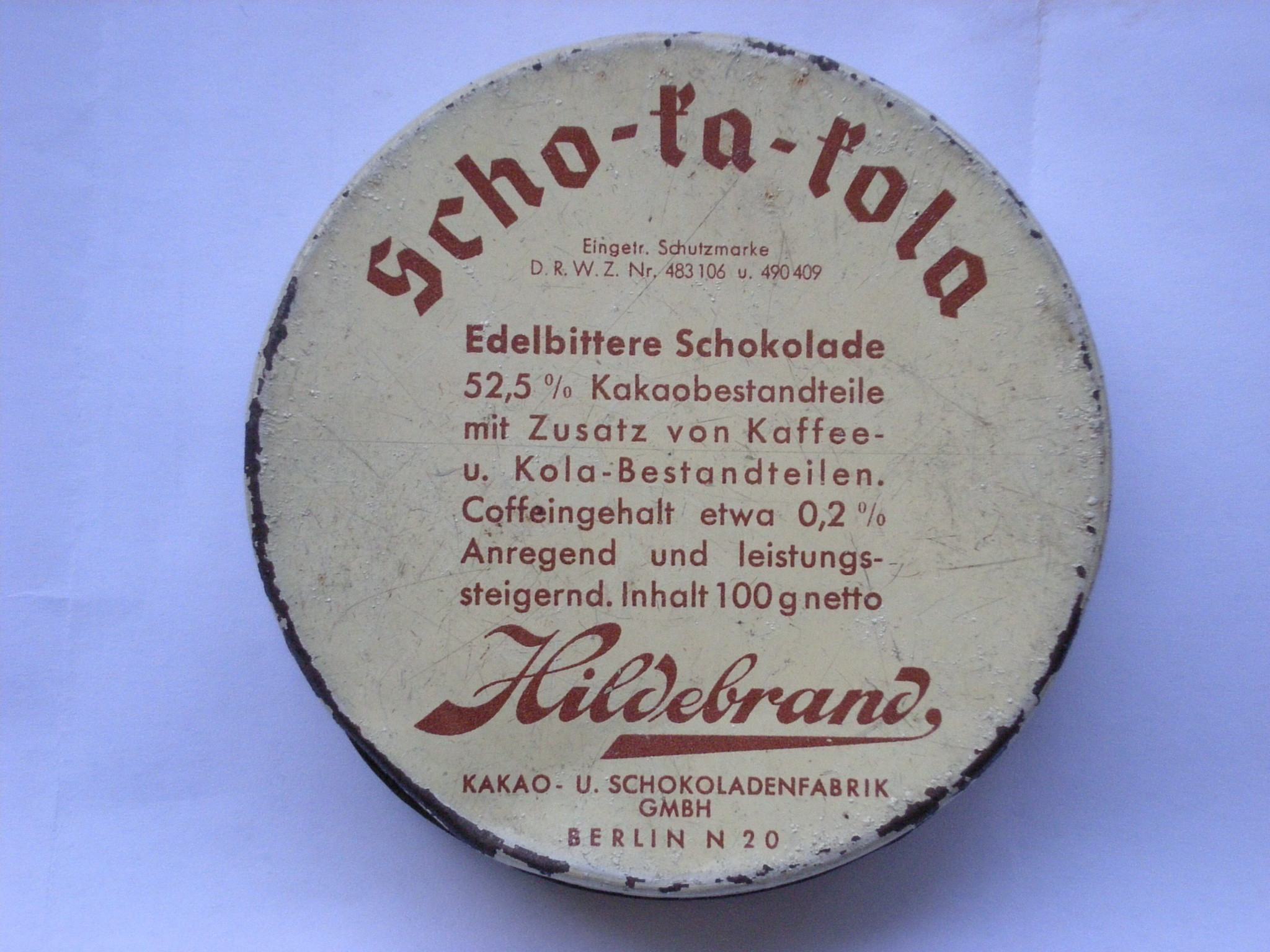 old chocolate tin can from Scho-Ka-Kola from german brand "Hildebrand Kakao und Schokoladenfabrik GmbH"